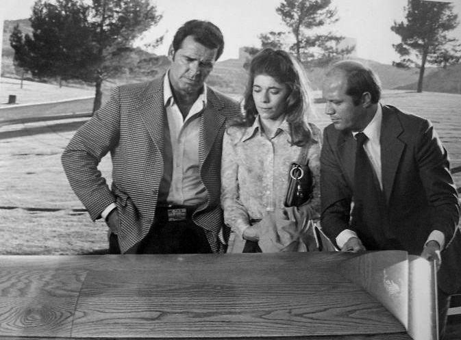 Photo of James Garner as Jim Rockford, Sian Barbara Allen as a newspaperwoman and Dave Morick as the county coroner from the television program The Rockford Files. In this episode, "Tall Woman in Red Wagon", Rockford's search for a missing woman takes him to a local cemetery.